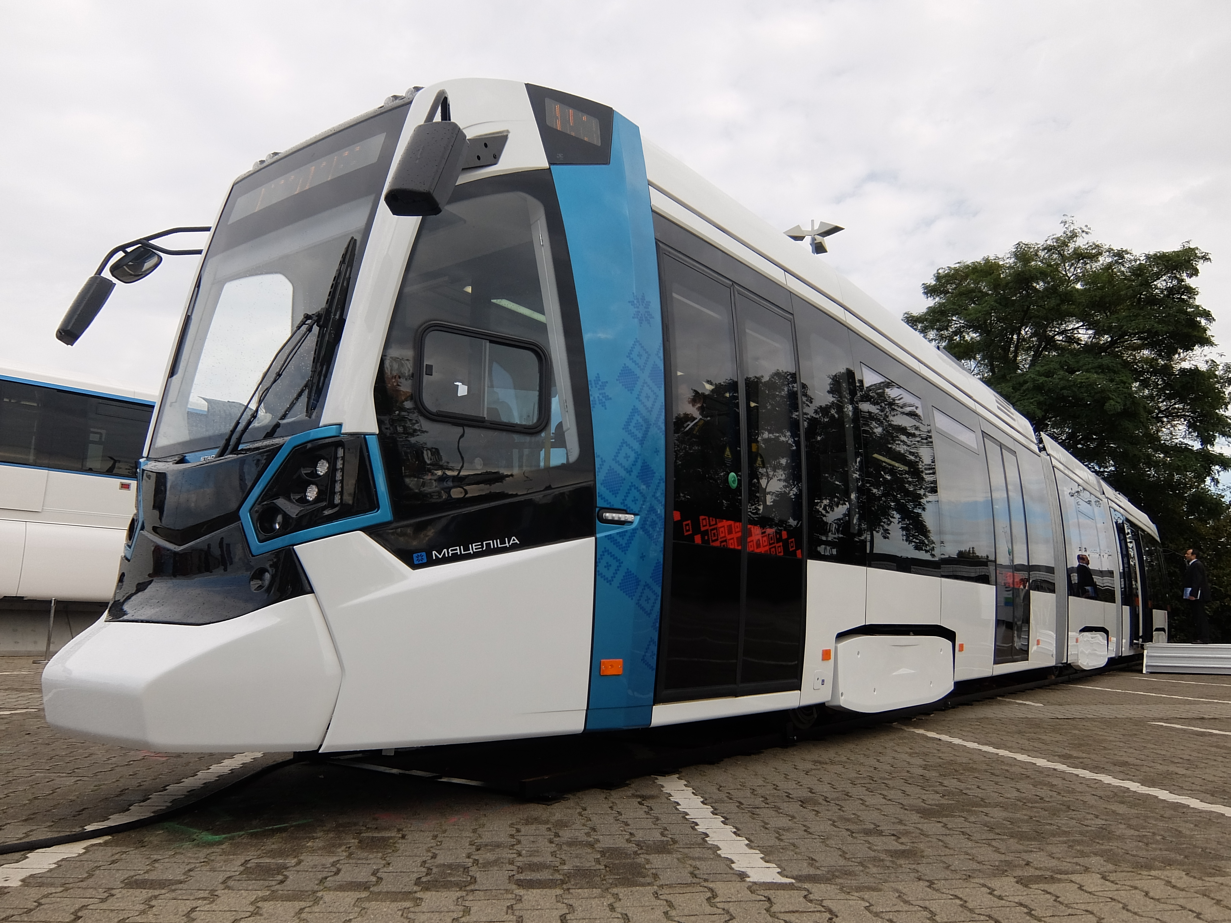 Stadler Metalitsa at Innotrans 2014